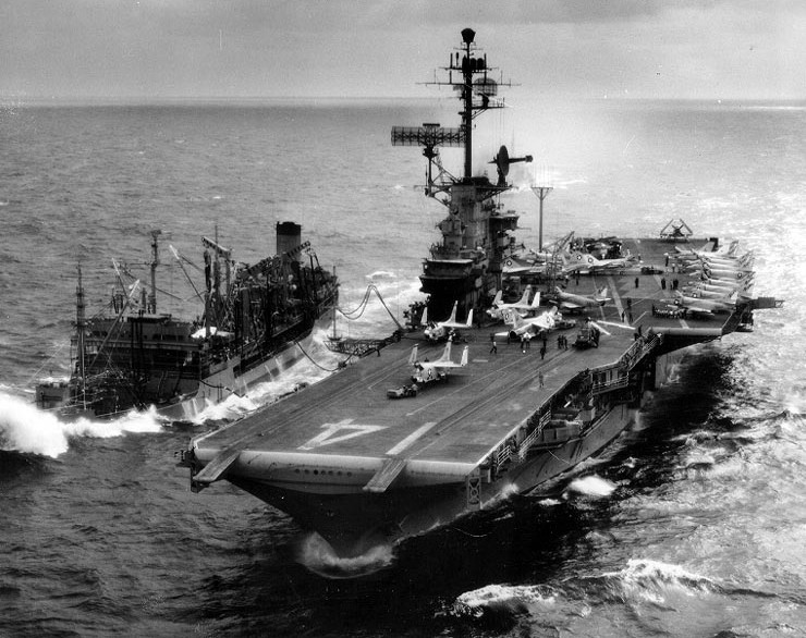 The U.S. Navy aircraft carrier USS Ticonderoga (CVA-14) refueling from the fleet oiler USS Ashtabula (AO-51), while operating off the coast of Vietnam, circa in January 1966. Although seas were running very high, the ships completed replenishment and Ticonderoga received 175,000 gallons (662,450 l) of black oil. Ticonderoga, with assigned Attack Carrier Air Wing 5 (CVW-5), was deployed to Vietnam from 29 September 1965 to 13 May 1966.